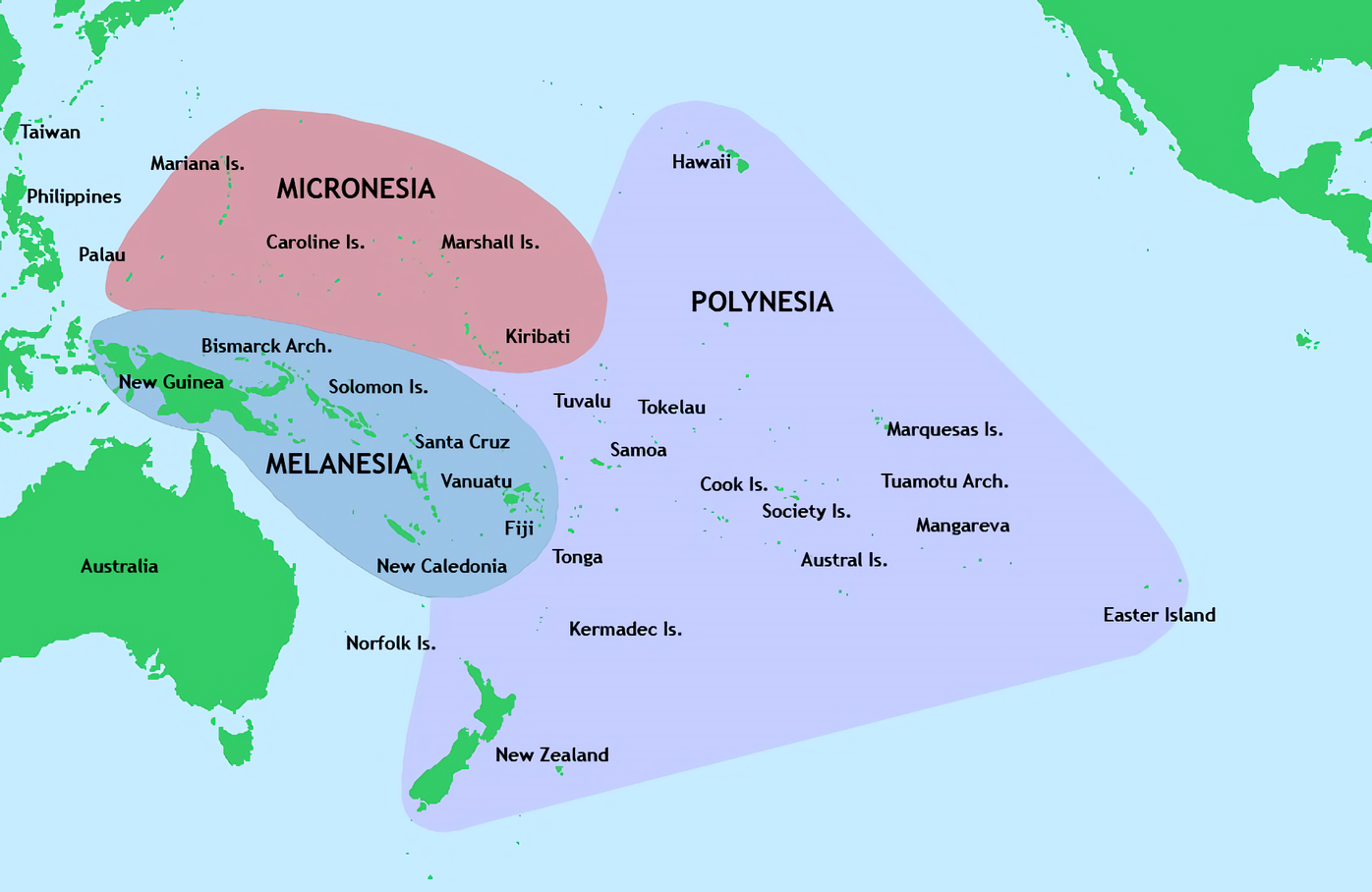 Major culture areas of Oceania: Micronesia, Melanesia, and Polynesia. Micronesia Melanesia Polynesia